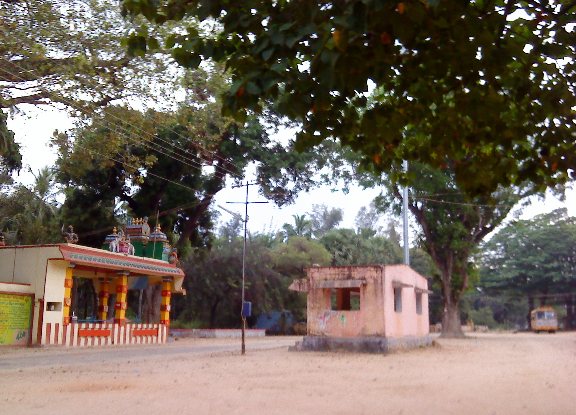 Manimuthar Bus stop.